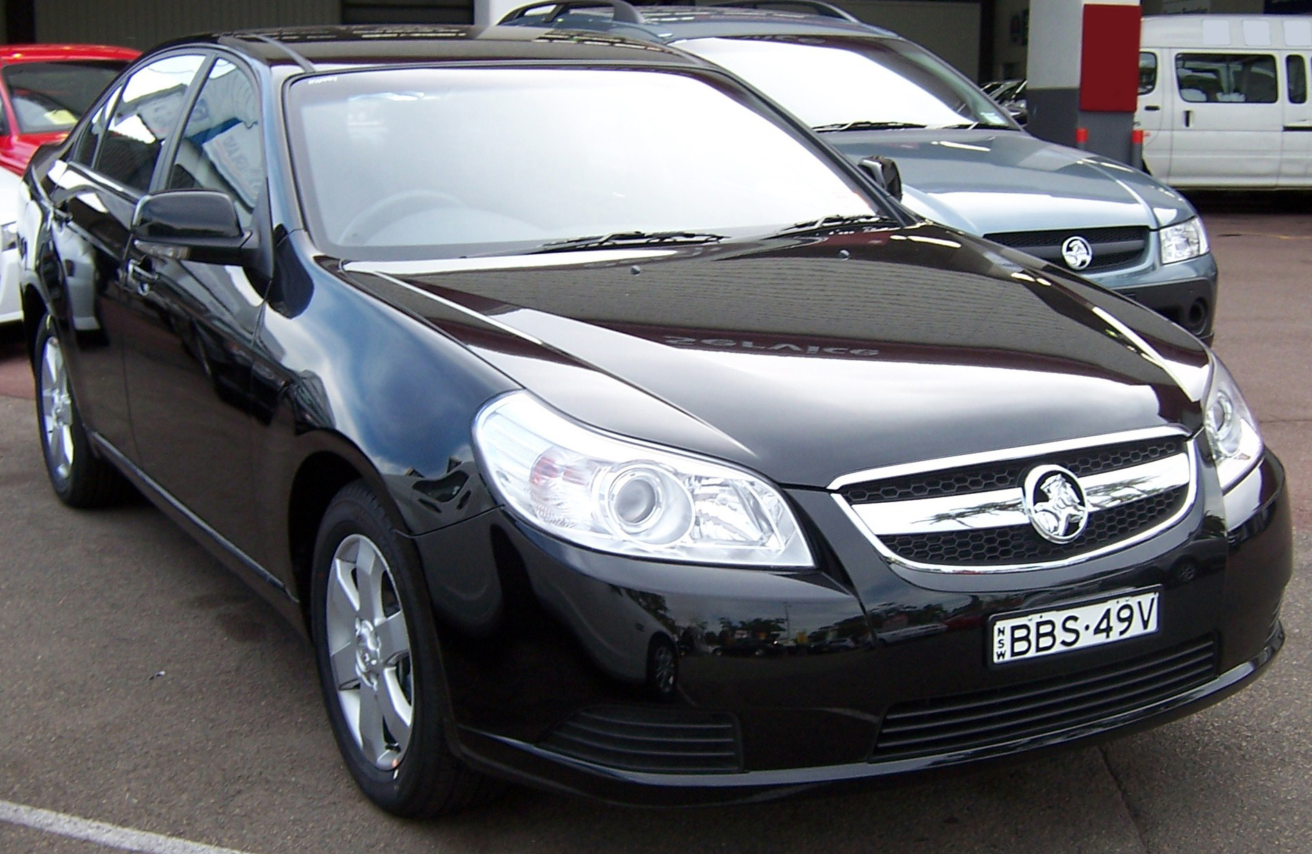 2007 Holden Epica (EP) CDX sedan. Photographed at McGrath Sutherland Holden, Kirrawee, New South Wales, Australia.